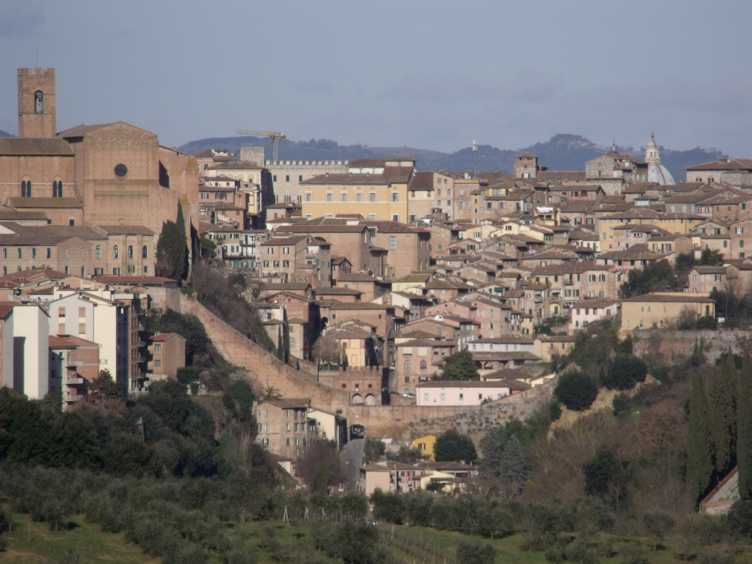 Panorama of the Fontebranda Valley (Vallechiara), Siena, Province of Siena, Tuscany, Italy Left side: Basilica di San Domenico